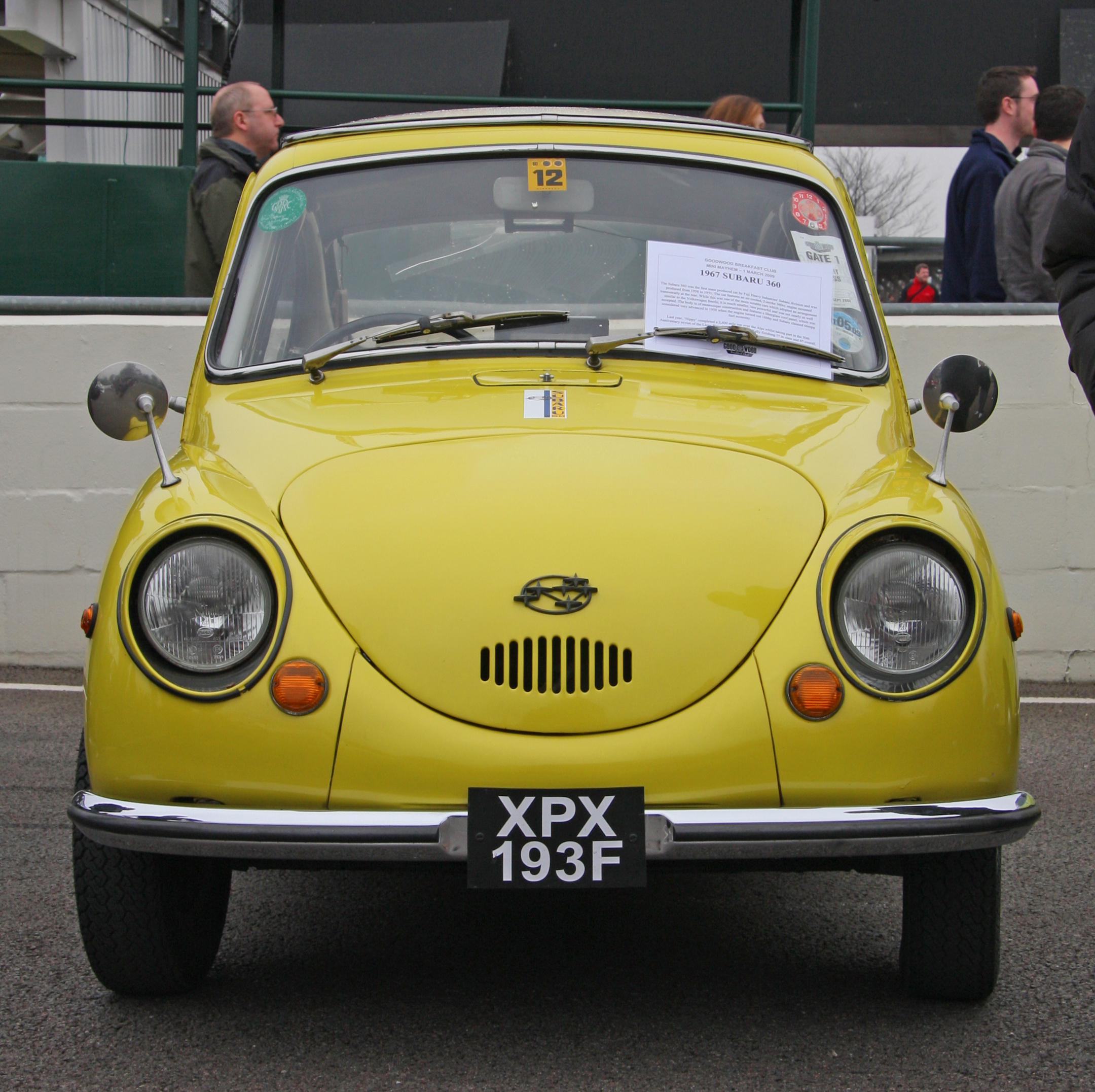 Air cooled 360cc 2-stroke 16bhp